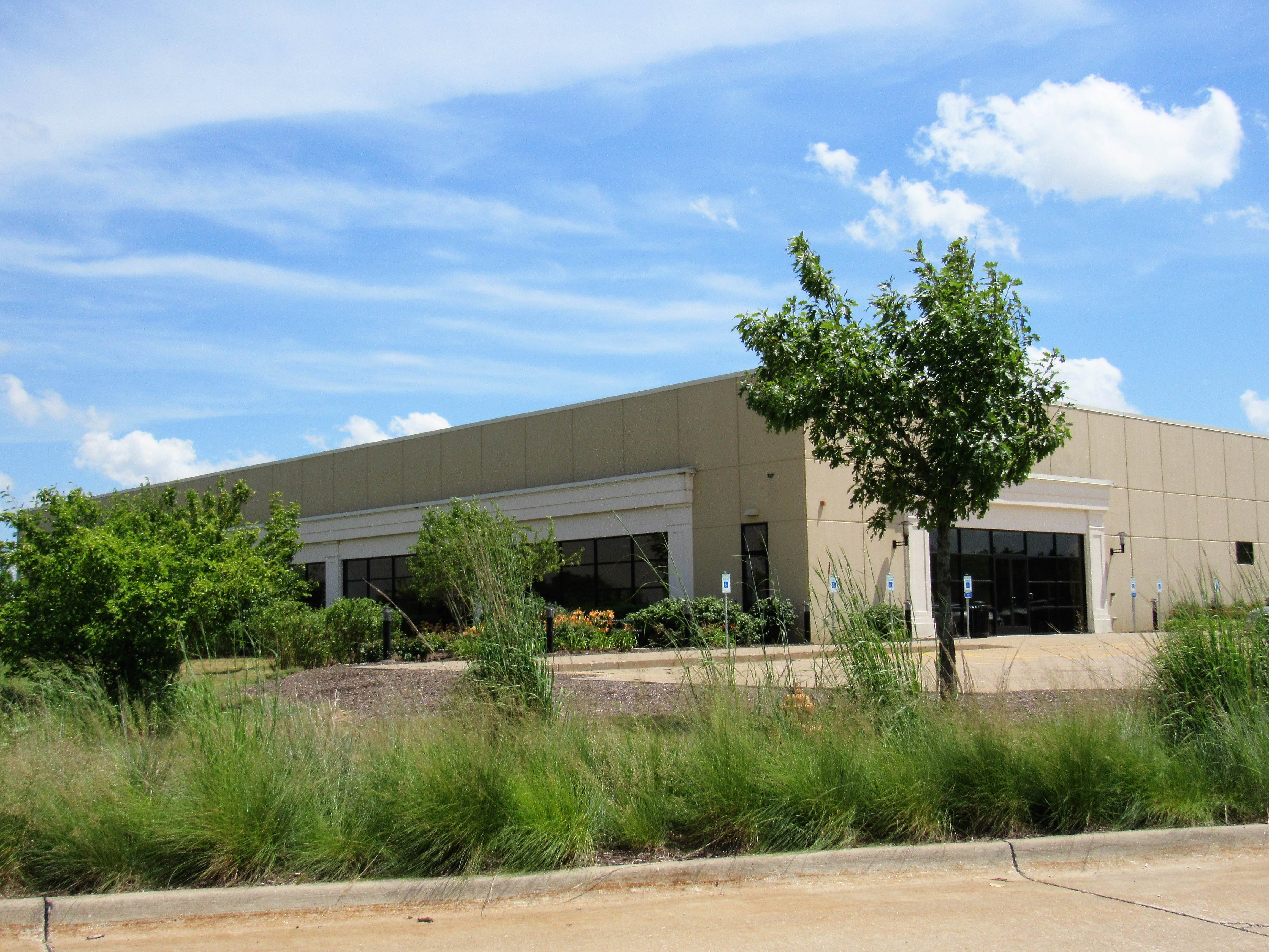 Von Maur E-Commerce Fulfillment Center on the north side of Davenport, Iowa.